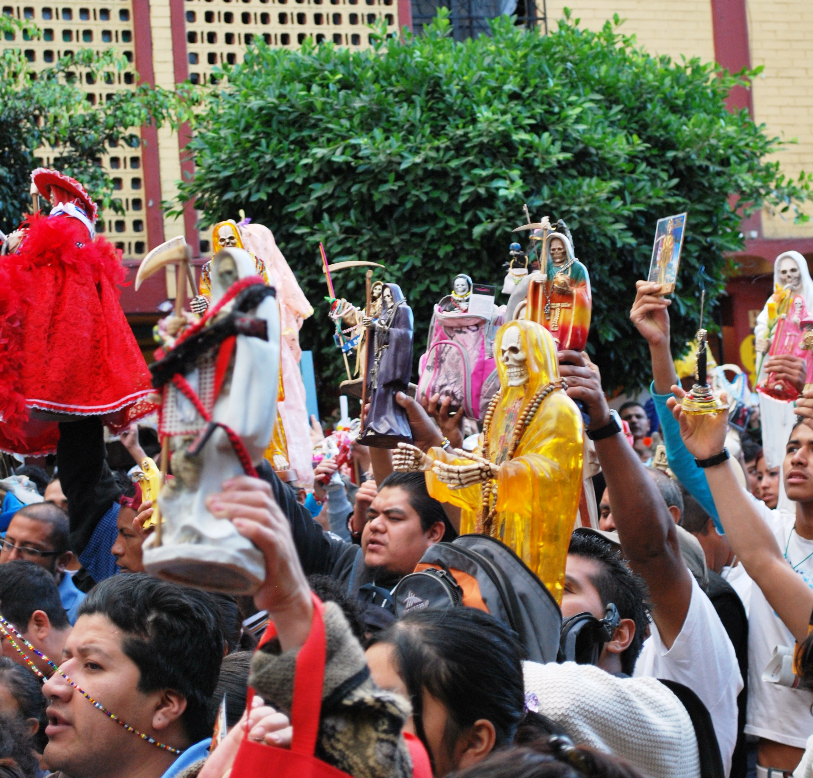 Raising of Santa Muerte images during a service for the deity on Alfareria Street Tepito Mexico City